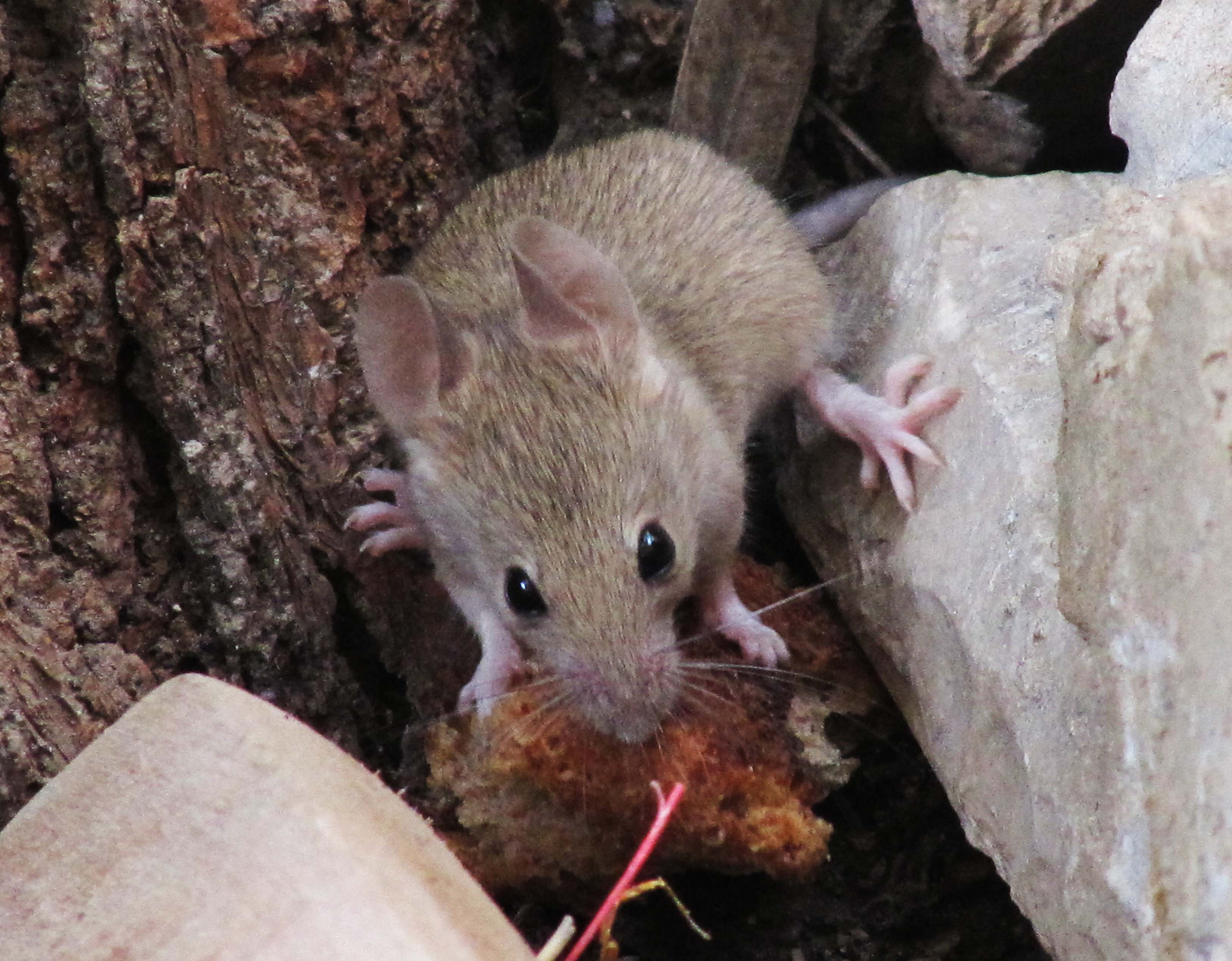 jerusalem mouse, Wildlife and Plants of Israel